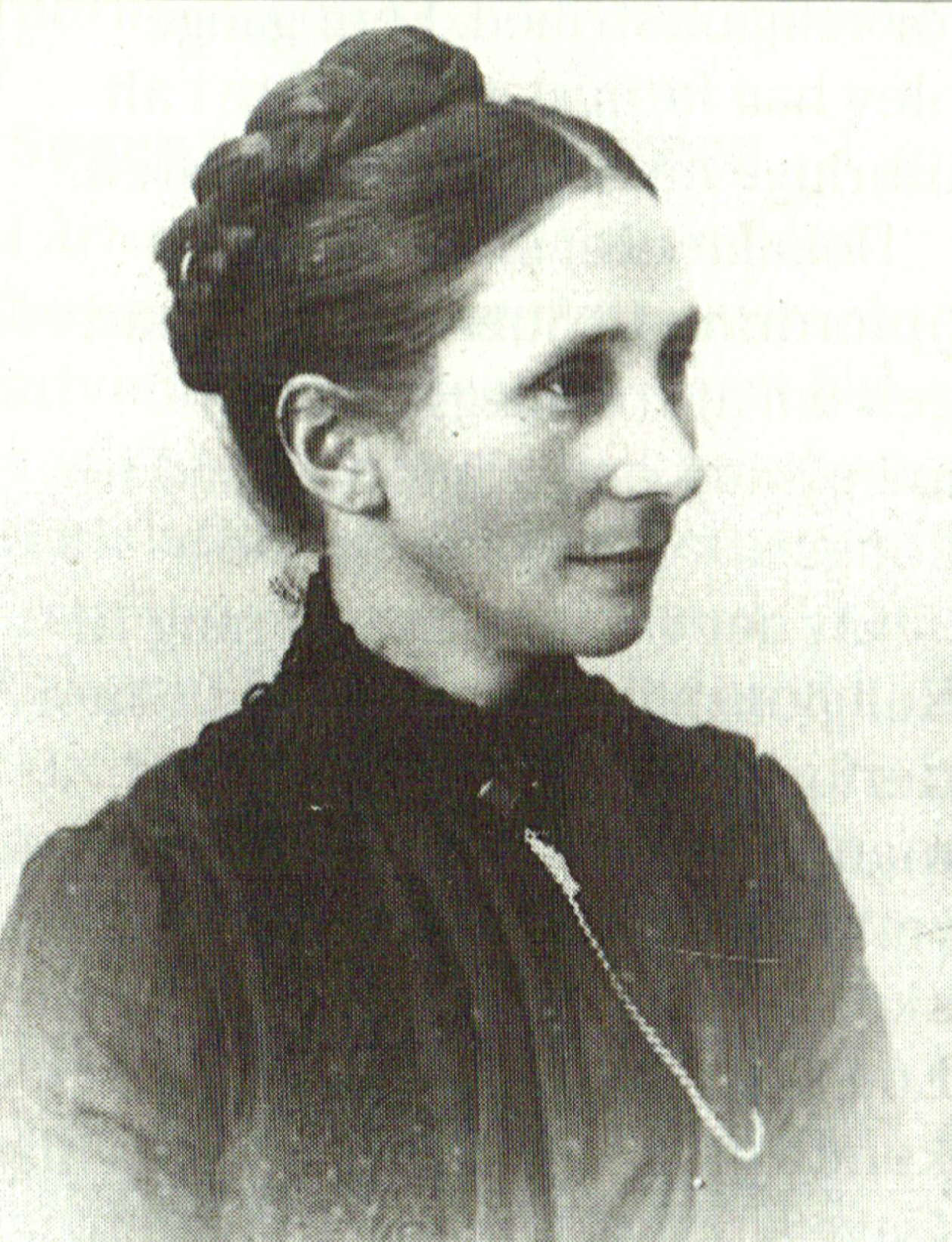 Portrait of Sine Renlev